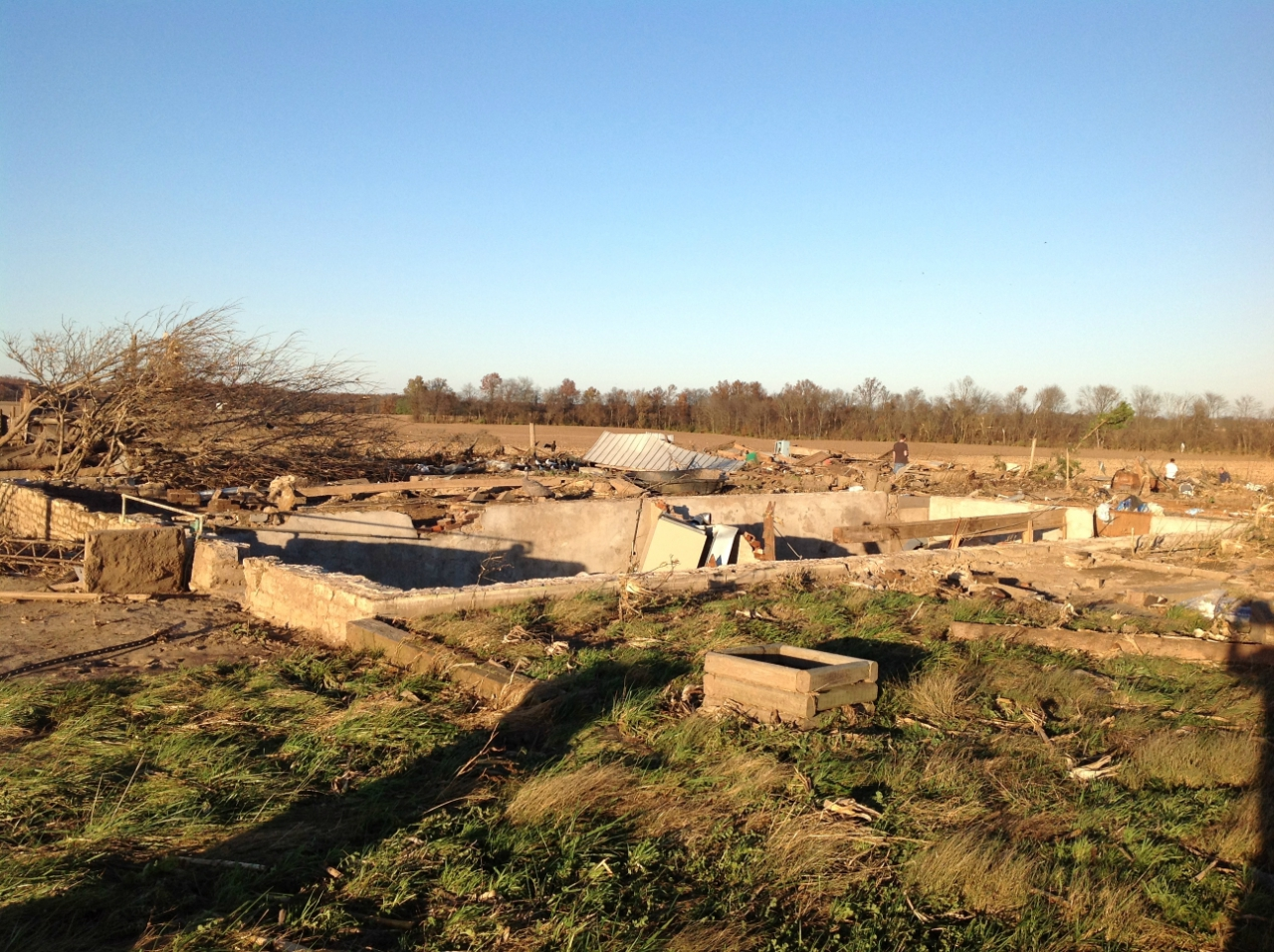 On November 17, 2013, a large scale storm system tracked across the Midwest United States, producing severe storms and over 70 tornadoes. One of these tornadoes tracked near New Minden, Illinois. This image shows a farm home stripped off its foundation – two deaths occurred here and the damage was rated EF4.